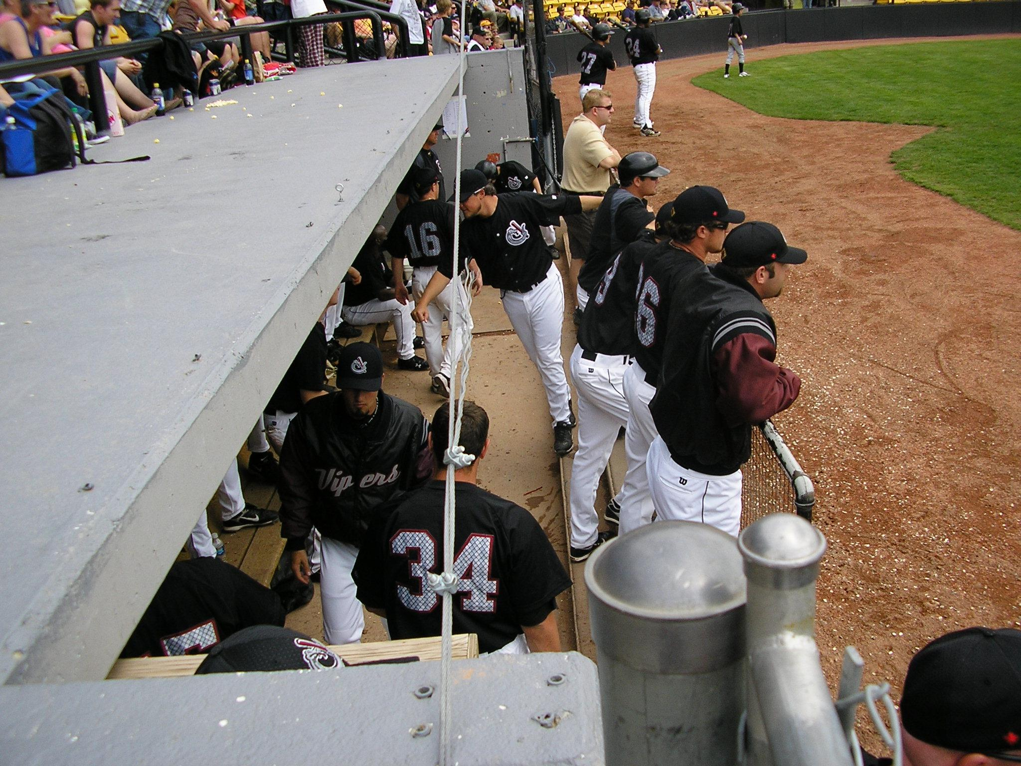 Photo of the Calgary Vipers dugout during a game against the Edmonton Cracker-Cats on June 1, 2008 at Foothills Stadium in Calgary, Alberta.